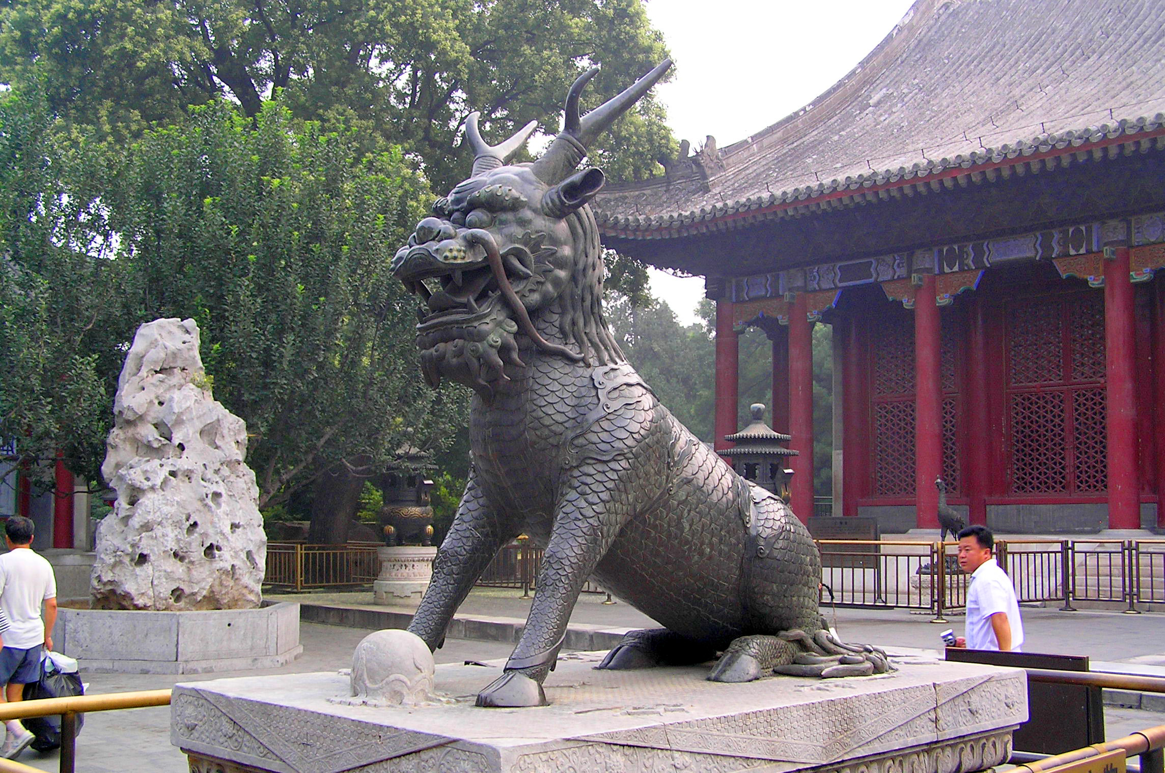 Qilin statue at the Summer Palace (Beijing, China). It was cast during the reign of Emperor Qianlong.